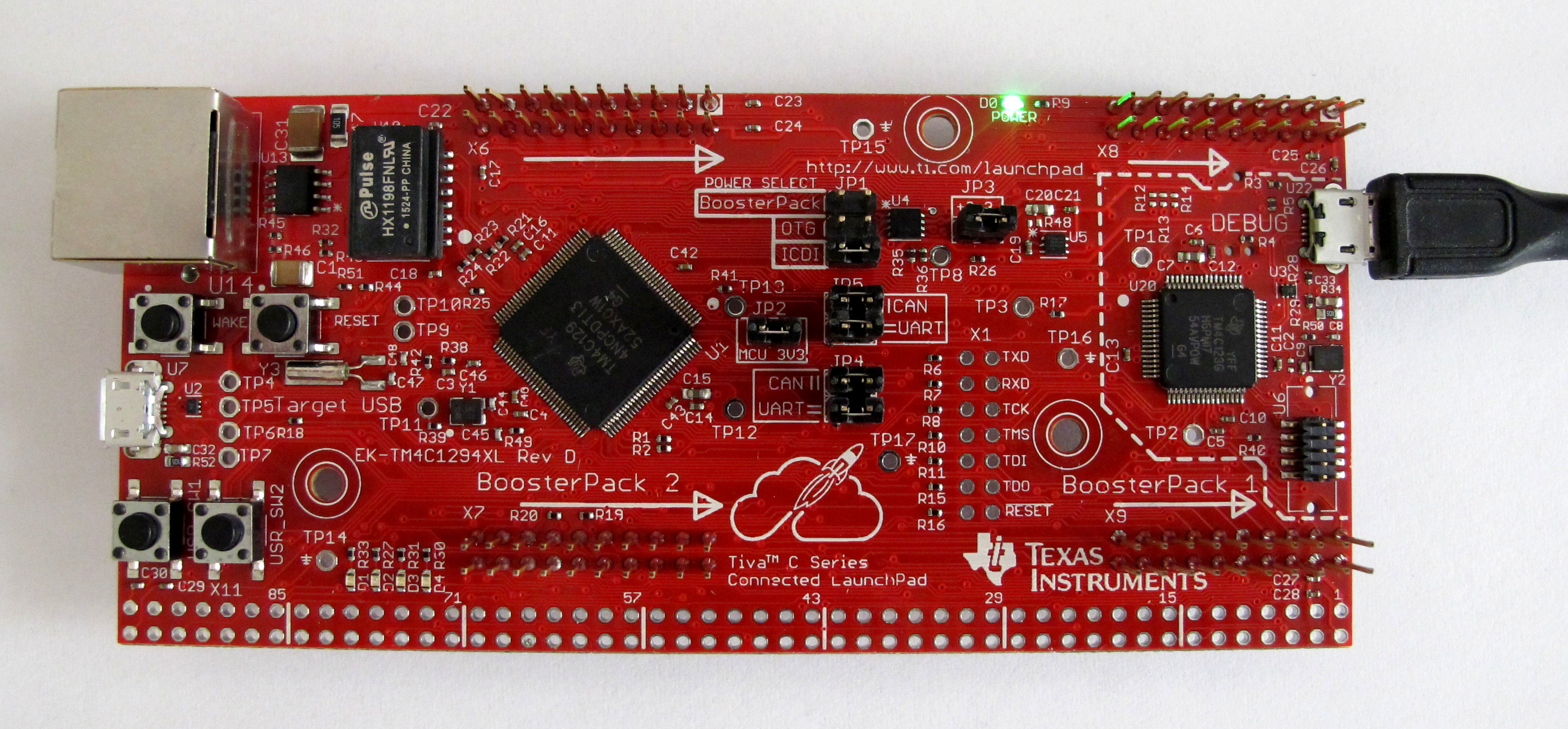 A Tiva-C (aka TM4C) LaunchPad EK-TM4C1294XL from Texas Instruments